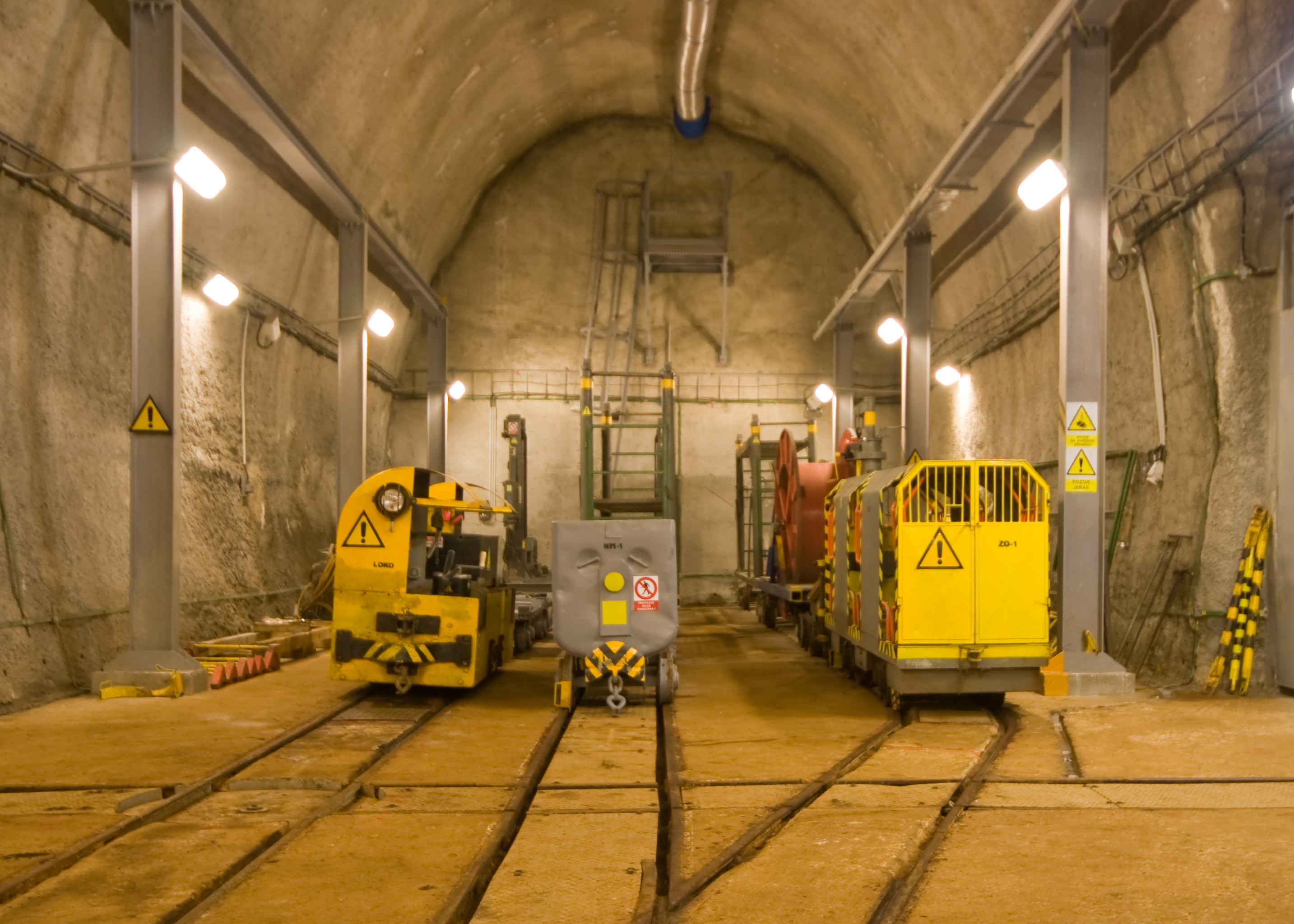 Utility tunnels Prague, Prague Tato série fotografií vznikla za laskavého svolení společnosti Kolektory Praha